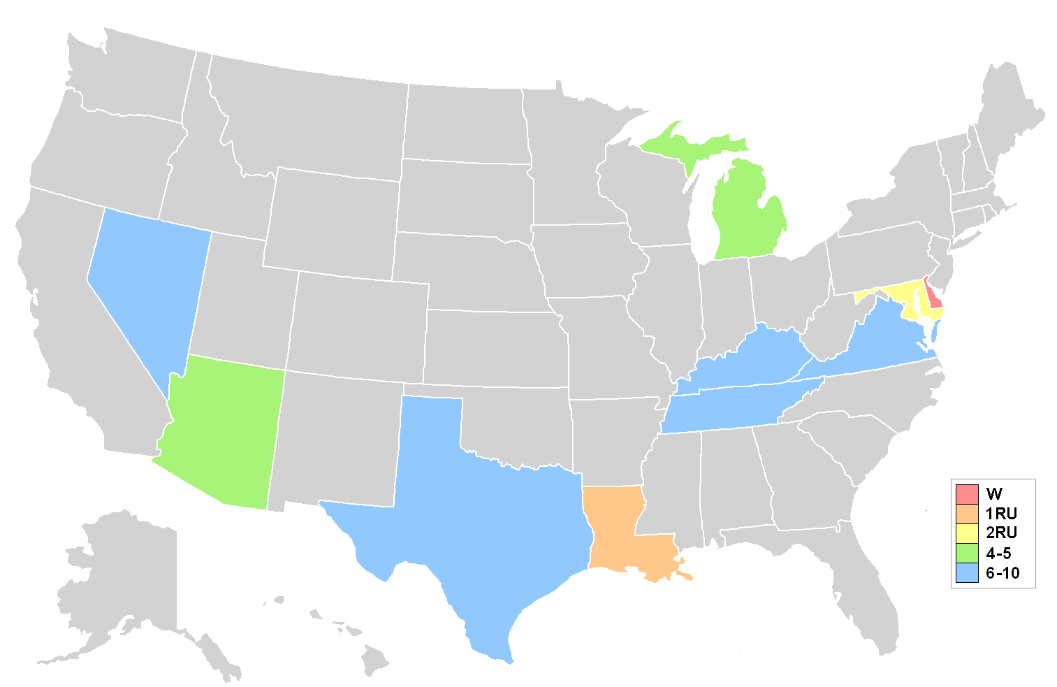 Map showing placements at the Miss Teen USA 1999 pageant. Key on graphic shows colour coding for break down of placements.